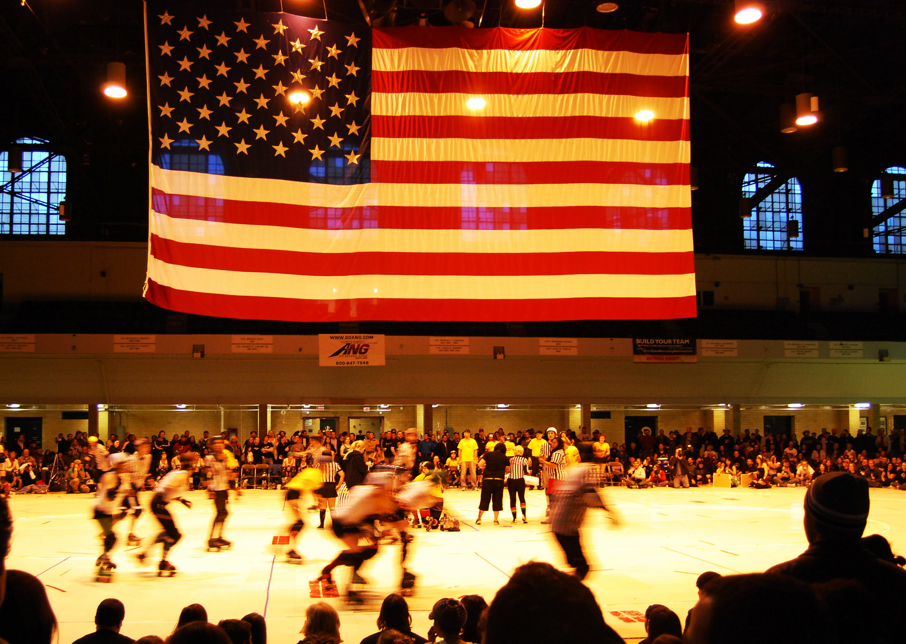 Charm City Roller Girls